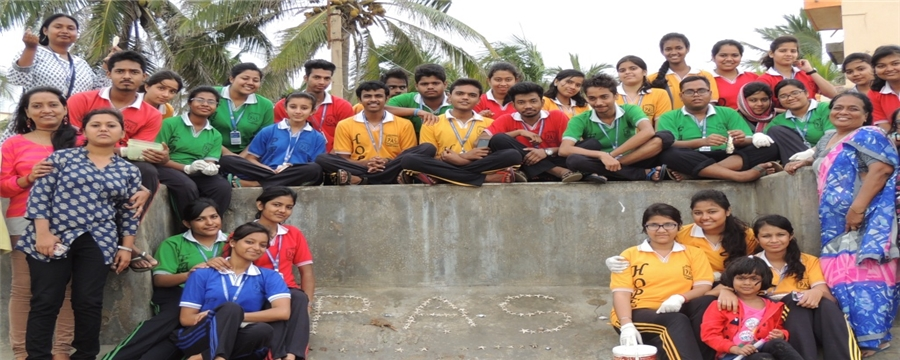 This photo is from Digha Beach of the students from The Pentecostal Assembly School, Bokaro